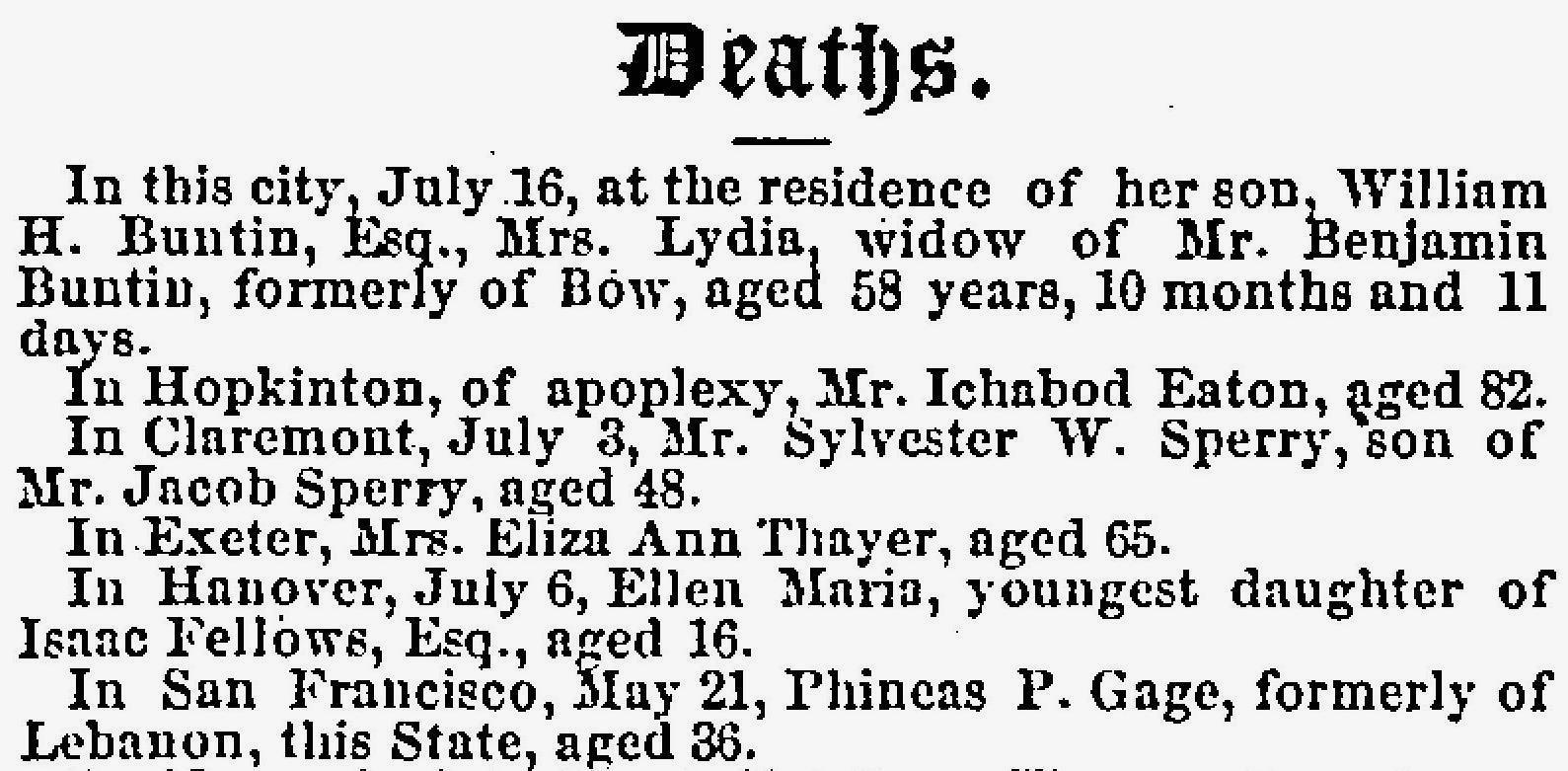 Partial image of "Deaths", New Hampshire Statesman (p.3 col. 4), reflecting recent death of Phineas Gage in California